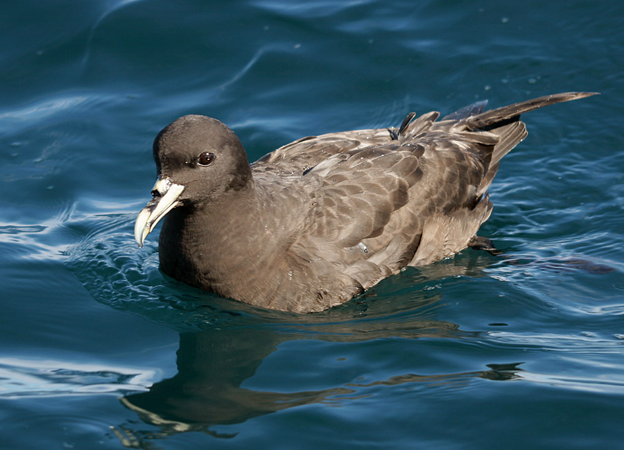 White-chinned Petrel (Procellaria aequinoctialis) off Kaikoura